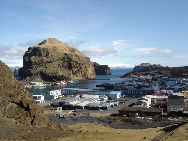 Vestmannaeyjar town seen from the slopes of the mountain Háhá, seen over the harbor. Bjarnarey can bee seen behind the lava field to the right, and Heimaklettur is the mountain on the left.